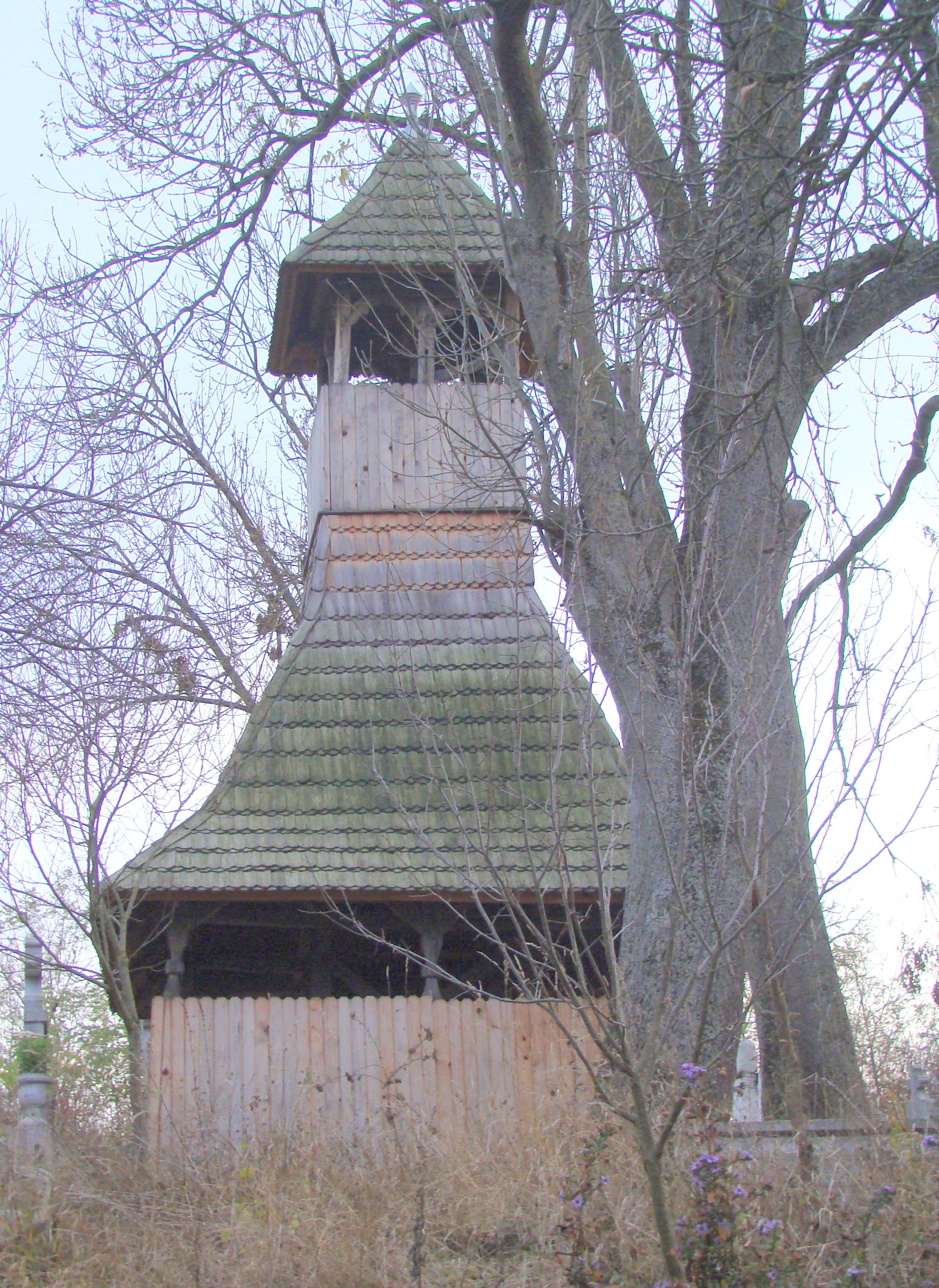 Belfry of the wooden church in Petea, Mureş county, Romania